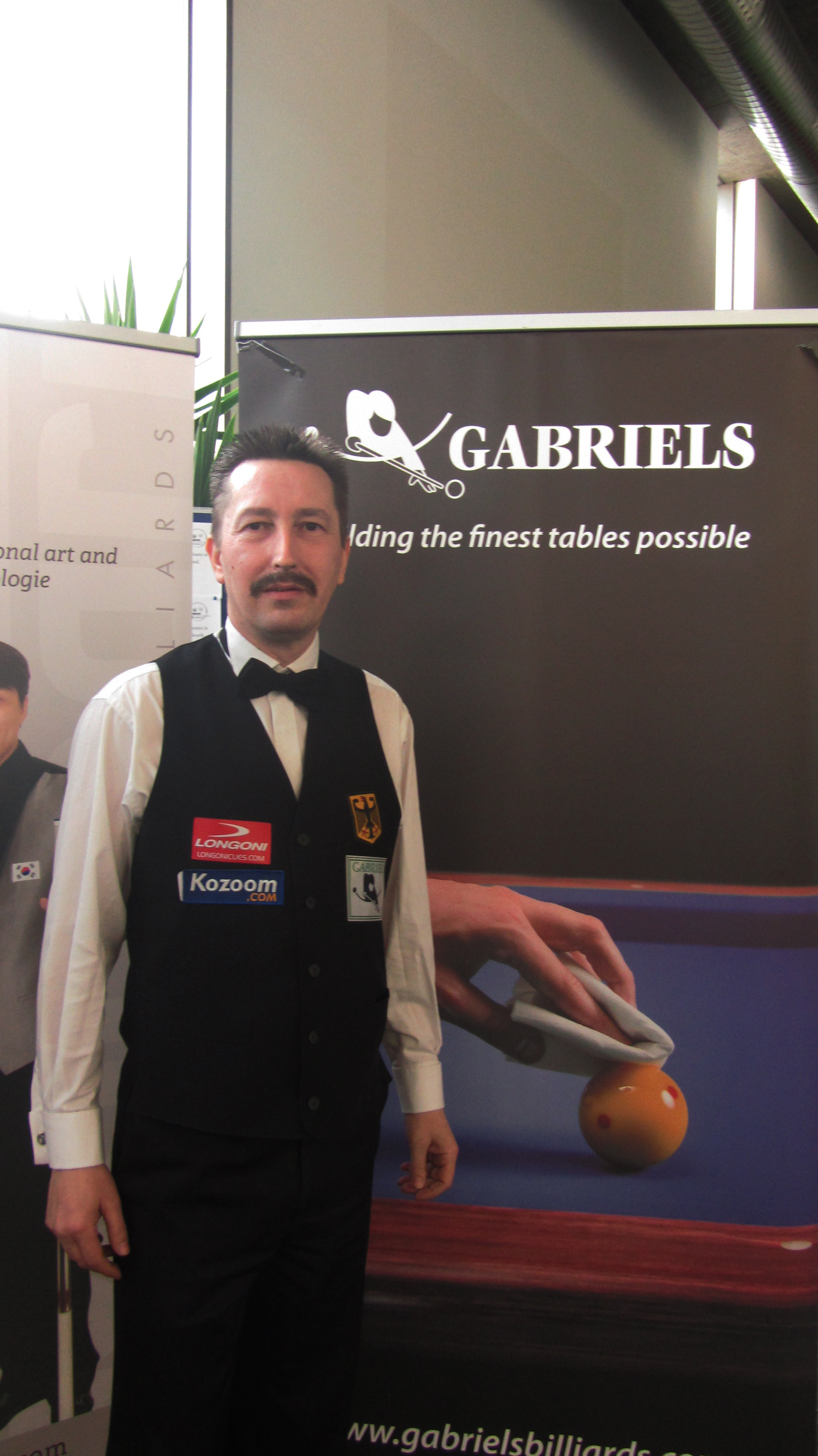 2013 European Carom Billiards Championship in Brandenburg/Havel, Germany. Thomas Ahrens (Billiard-Artistique player from Germany)